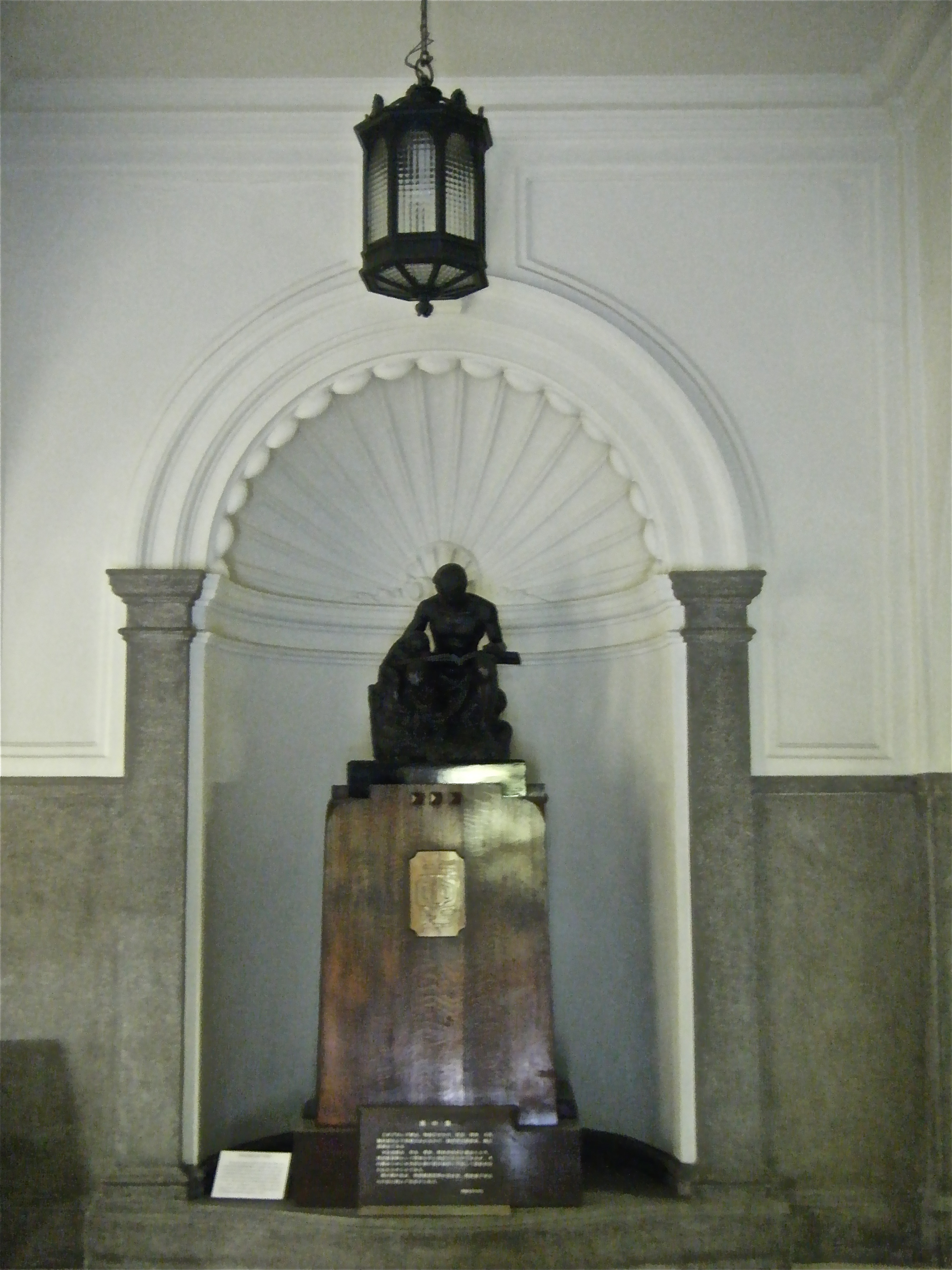 "Statue of Love" carved by Yoshizumi Yokoe owed by Aoyama Gakuin.